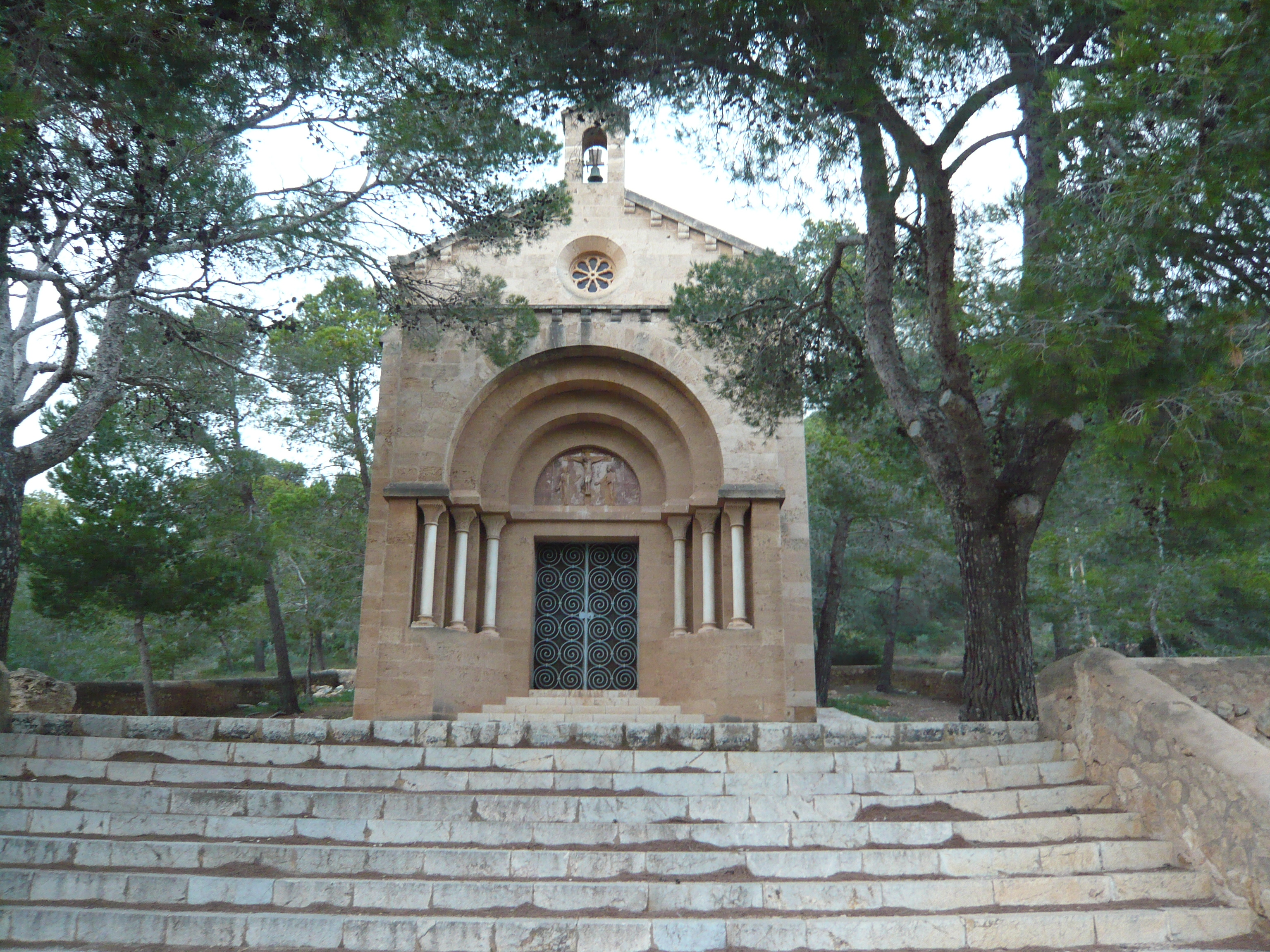 Calvià, Balearic Islands, Spain